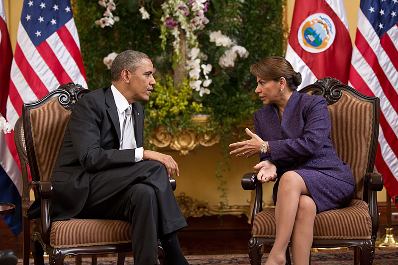 United States President Barack Obama participates in a restricted bilateral meeting with President Laura Chinchilla of Costa Rica at the Ministry of Foreign Affairs in Casa Amarilla, San José, Costa Rica on 3 May 2013.